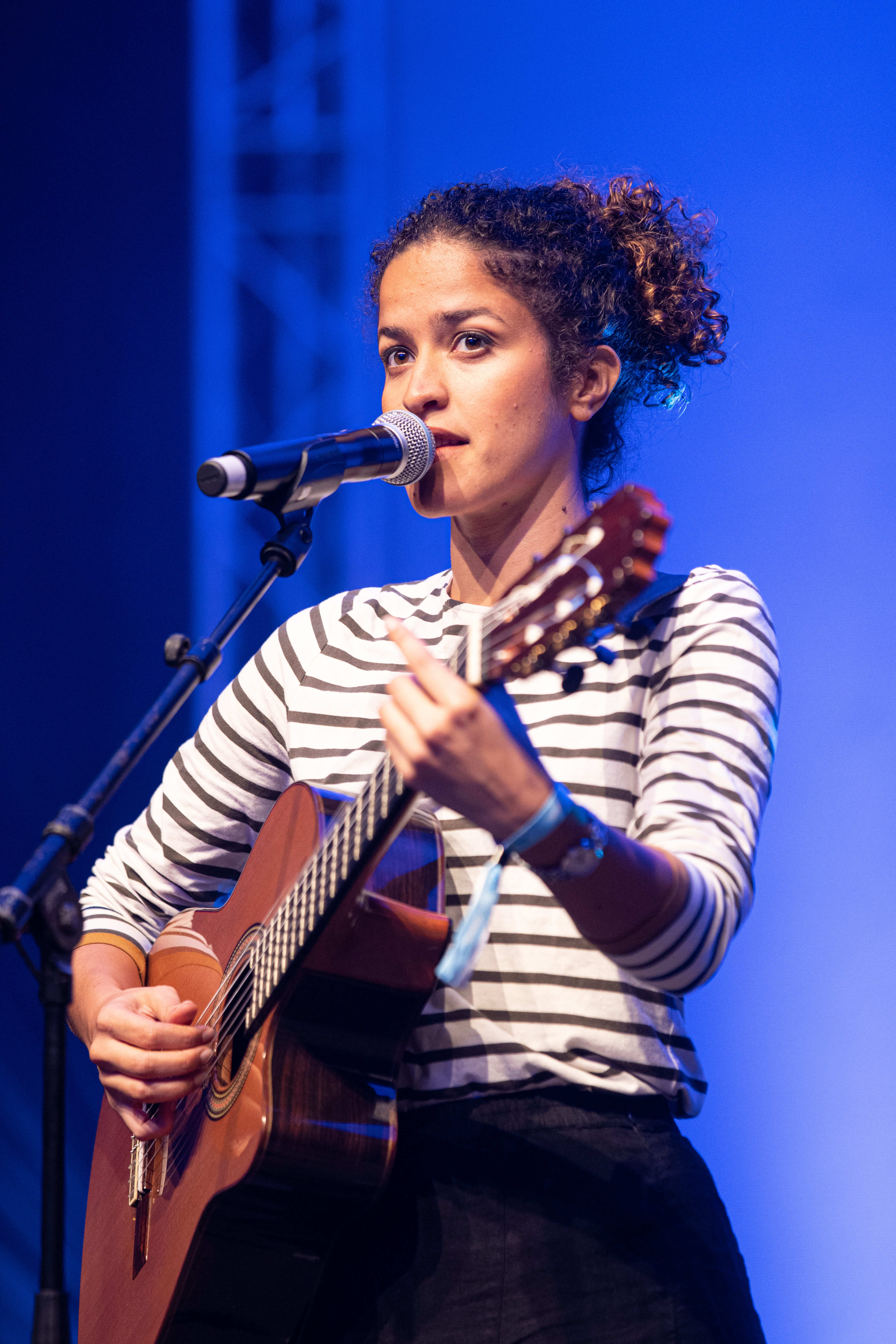 Singer-Songwriter Aline Frazão at the Internationale Kulturbörse Freiburg 2020